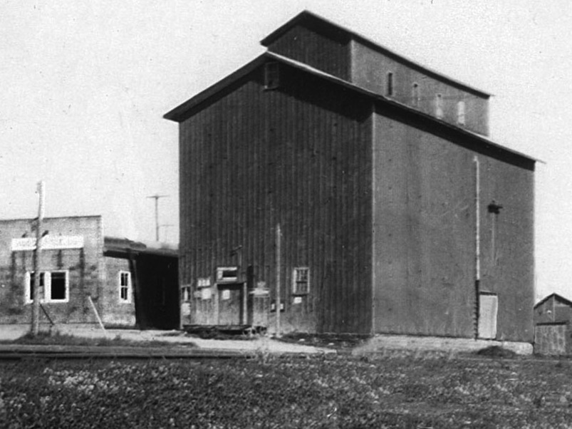 The Port Perry mill and grain elevator, circa 1930. The building remains a major landmark to this day. A line of the Port Whitby and Port Perry Railway runs across the foreground, although it is not clear in this image if this was the spur that ended at the elevator, or the mainline passing to Lindsay. The elevator was built in 1873 by George Currie and was later sold to Aaron Ross. The building was referred to as the Ross Elevator for years. By the time of this image, it was owned by Hogg & Lytle, with their offices located in the smaller building on the left. Today it used by an auto parts distributer, and the two buildings have been connected, with additional storage built on the right.